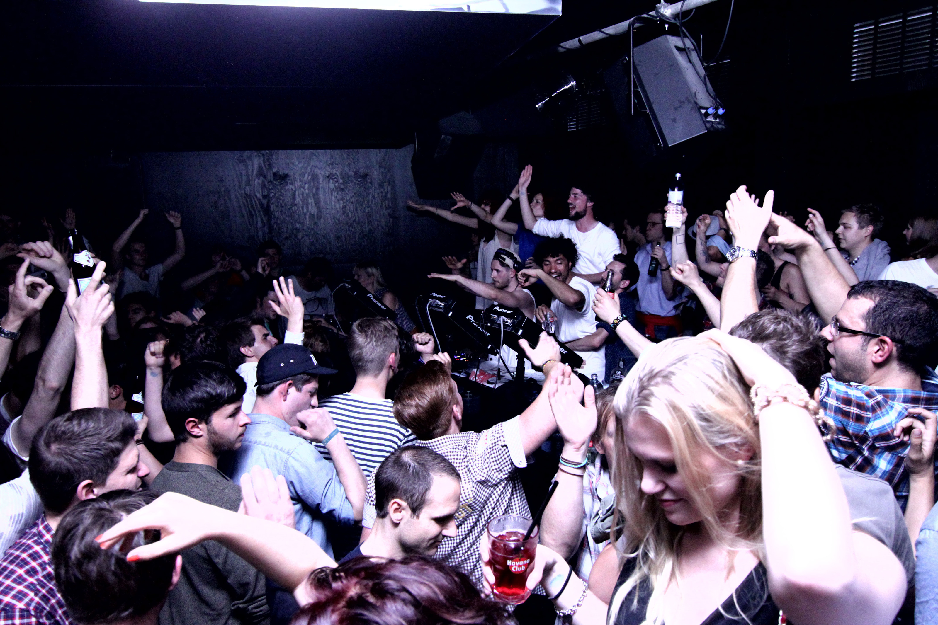 Techno club Bob Beaman in Munich.